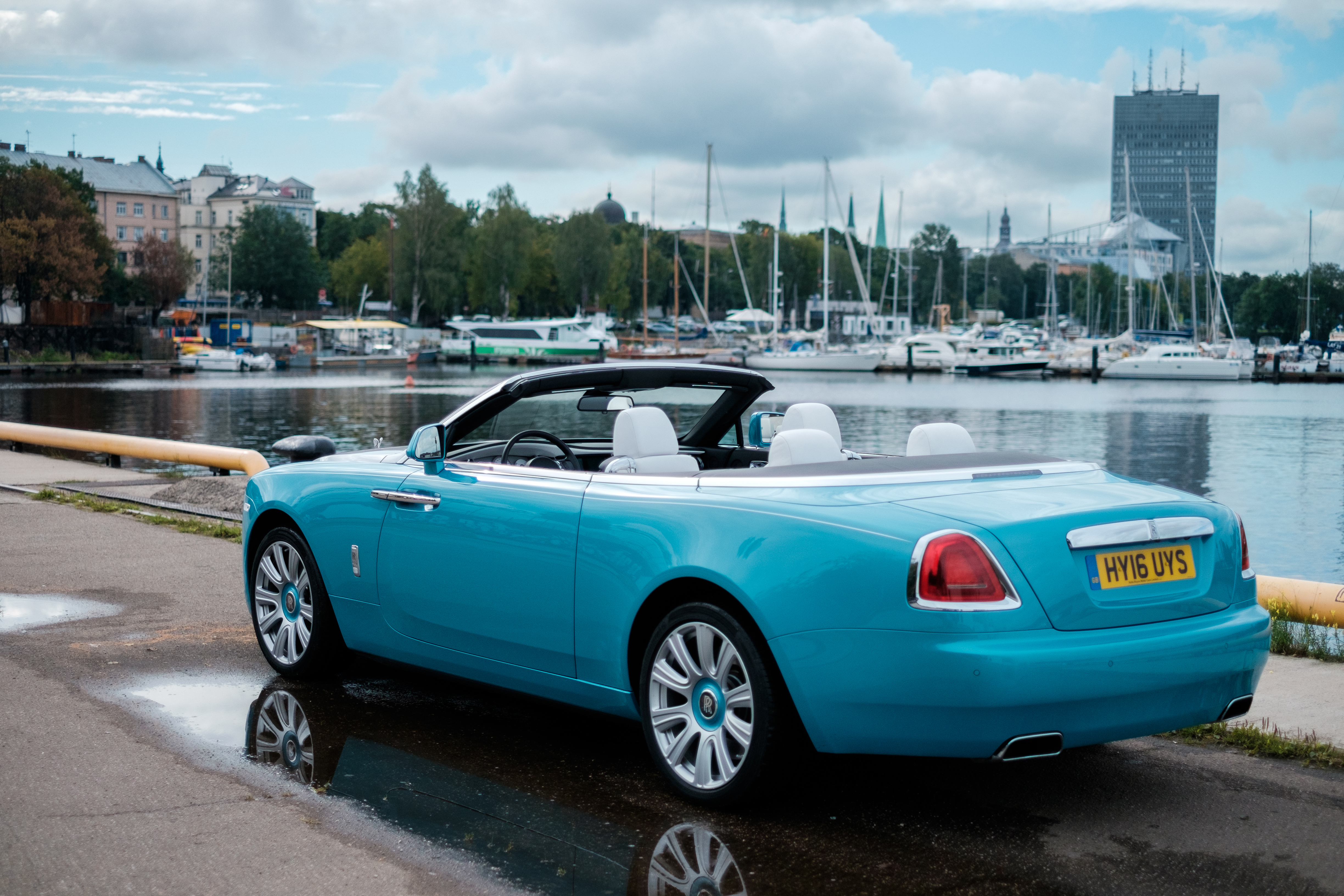 Rolls Royce Dawn 2016